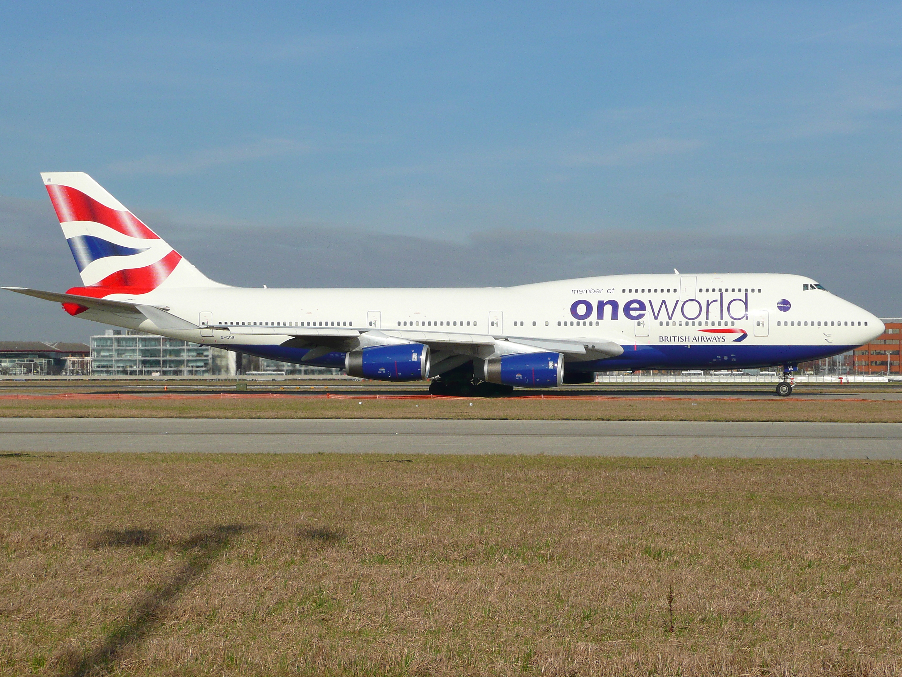 G-CIVI B744 BA wih Oneworld titles.